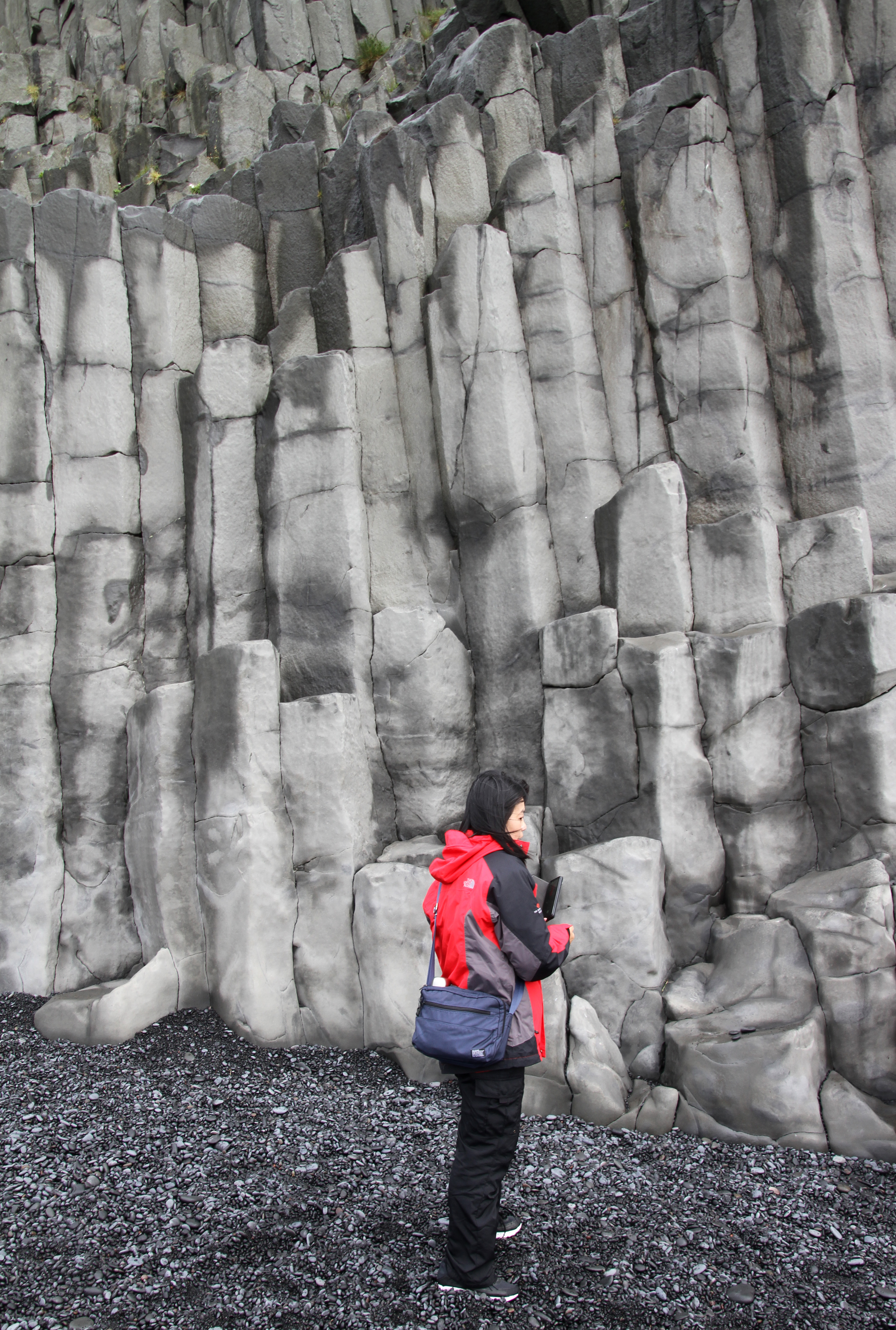 Columnar basalts at Reynisfjara